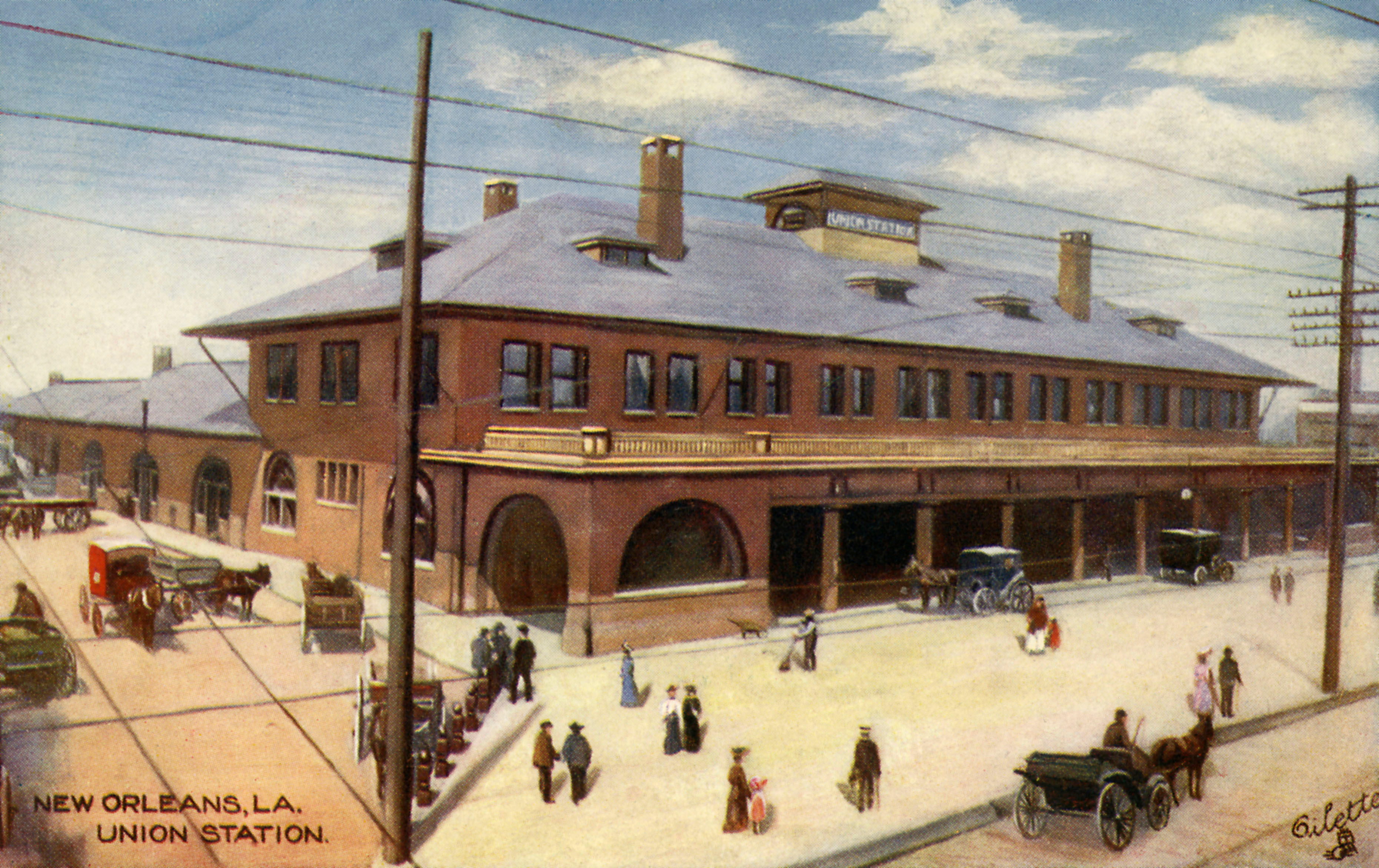 The old "Union Station", New Orleans, at the start of the 20th century. This was on South Rampart Street, now Loyola, just in front and slightly downriver from the current Union Passenger Terminal. Opened 1 June 1892, Louis Sullivan, architect.